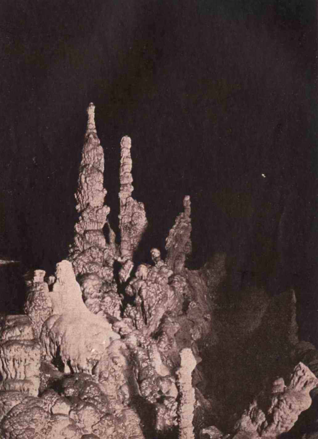 Baradla Cave, Hungary.